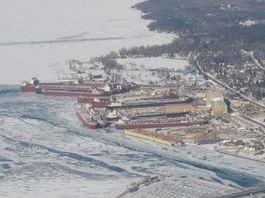 Aerial view of Sturgeon Bay, during the winter. Thirteen lake freighters are in winter layup. The Michigan Street Bridge, part of Business Highway 42/57, is in the center.